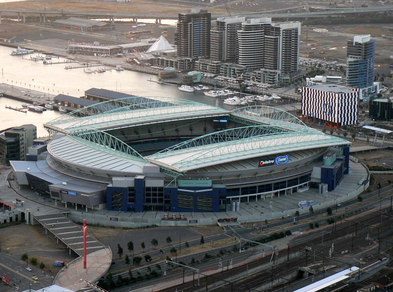 Taken by self Joe Bekker